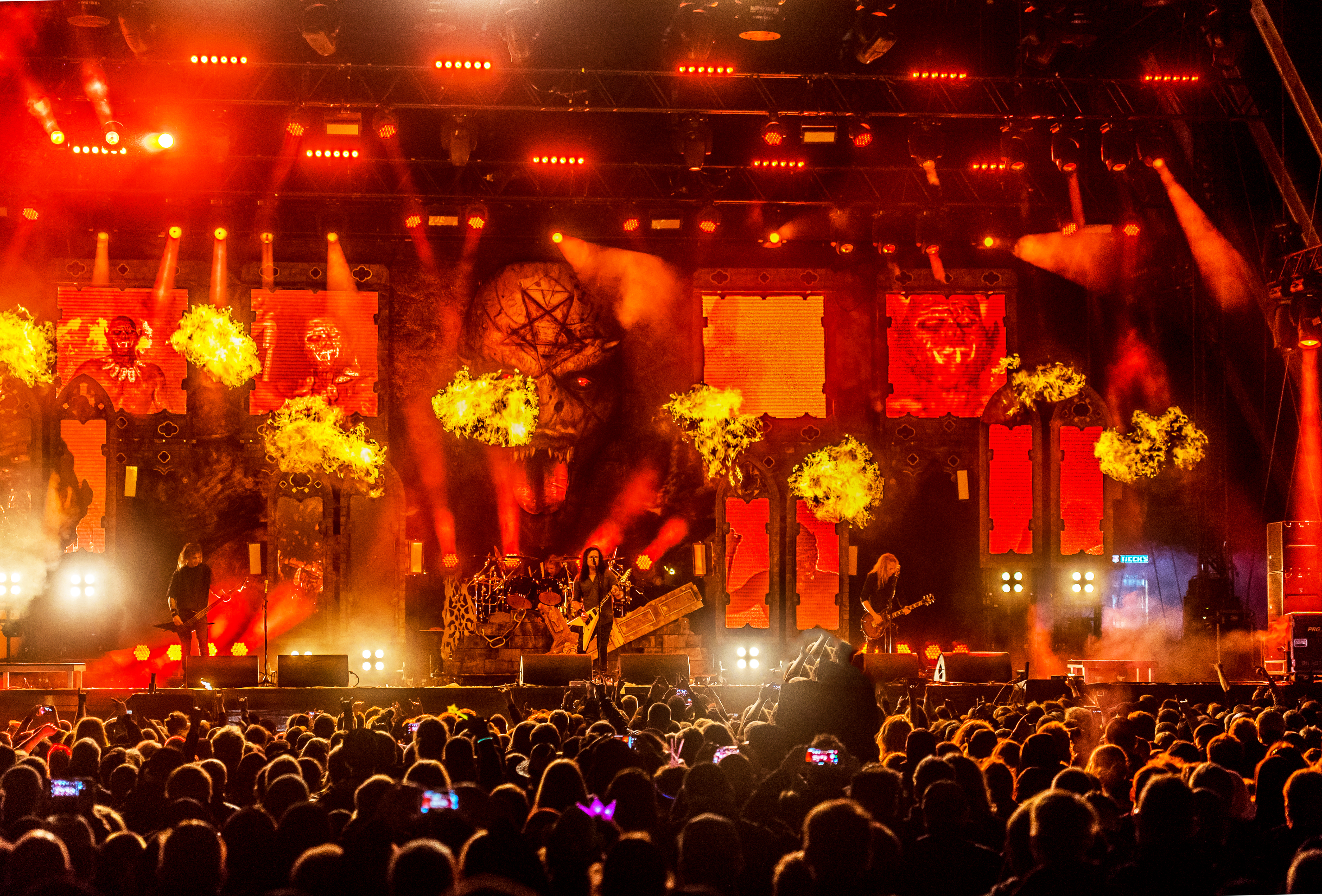 Kreator playing at Reload Festival 2018